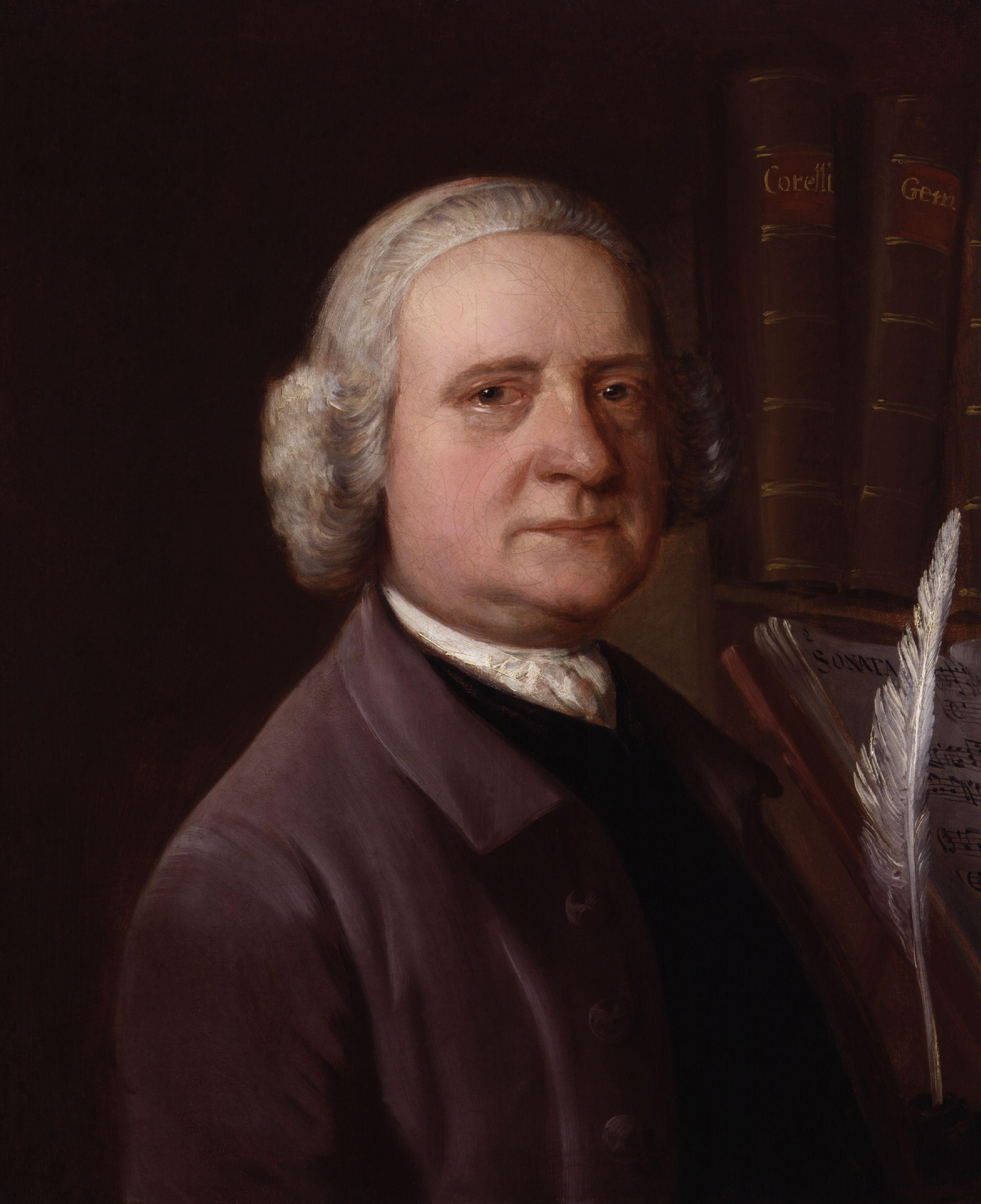 Portrait of Joseph Gibbs. All images in this batch have been confirmed as author died before 1939 according to the official death date listed by the NPG.